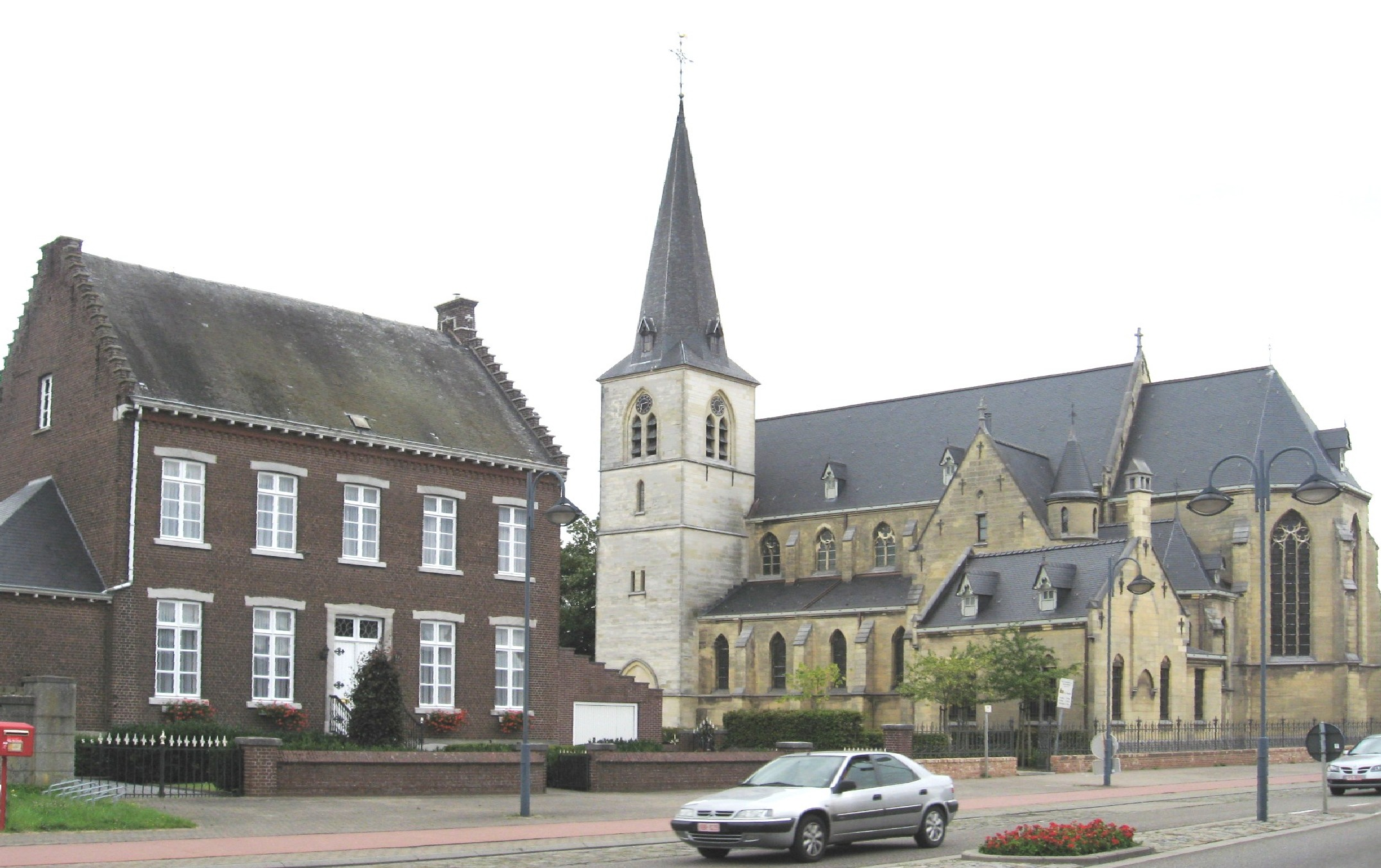 Church of Saint Ursula in Kleine-Brogel, Peer, Limburg, Belgium